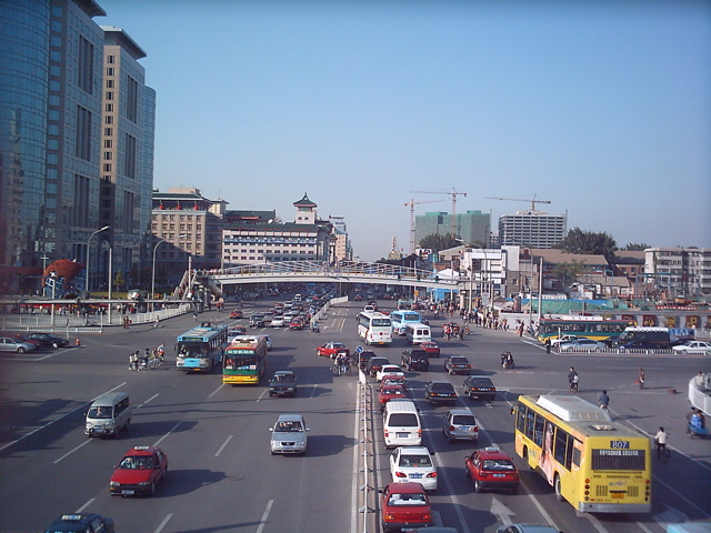 Dongdan Crossing (Aerial). DF08 2004 image.